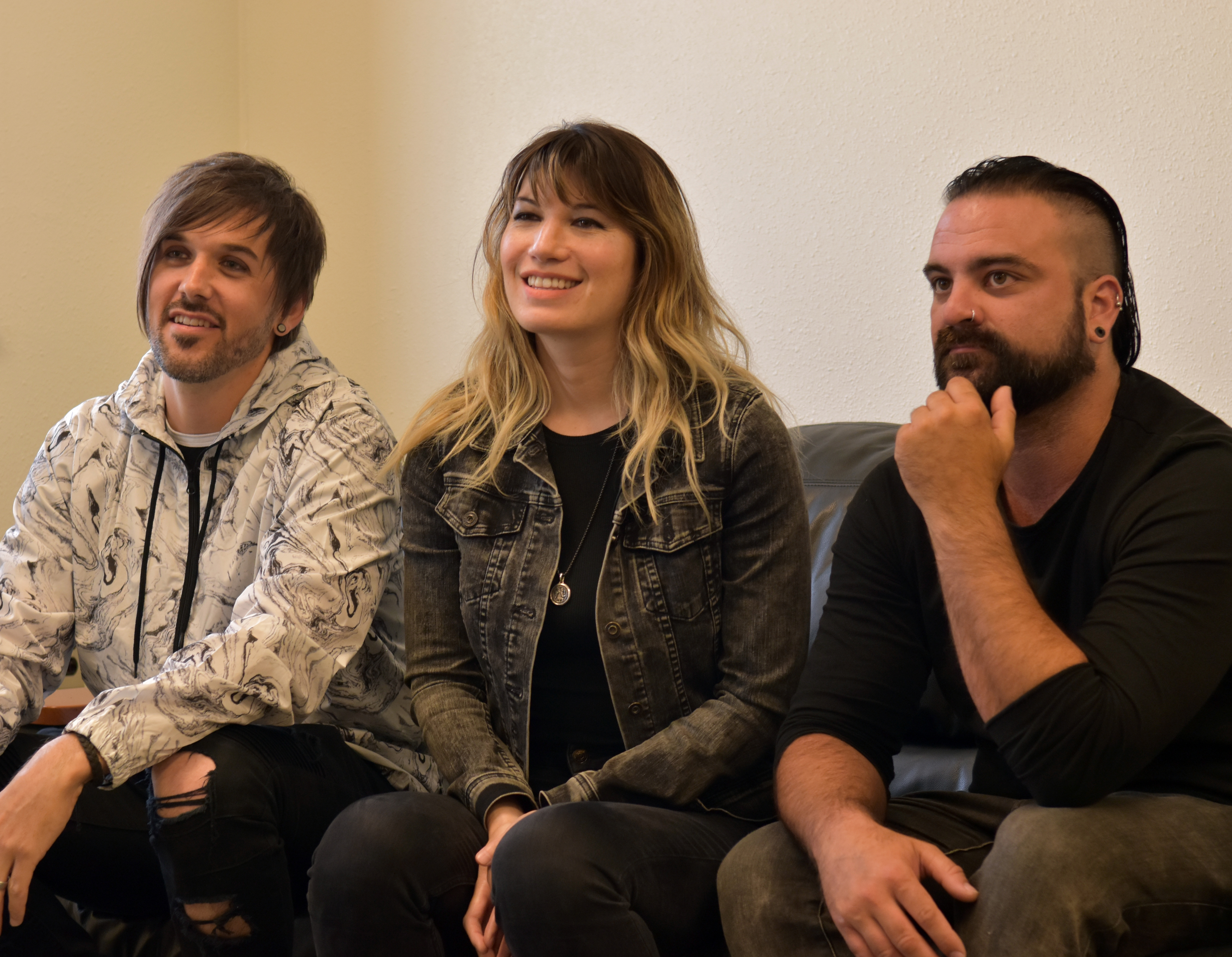 Sick Puppies band members (from left to right) Mark Goodwin, Emma Anzai, Bryan Scott give a news interview for American Forces Network Humphreys at U.S. Army Garrison Humphreys, on May 14, 2019. The Sick Puppies are performing a multiday tour at various installations on the Korean peninsula from May 15 thru 18. (Photo by Army Staff Sgt. Armando R. Limon, American Forces Network Humphreys)